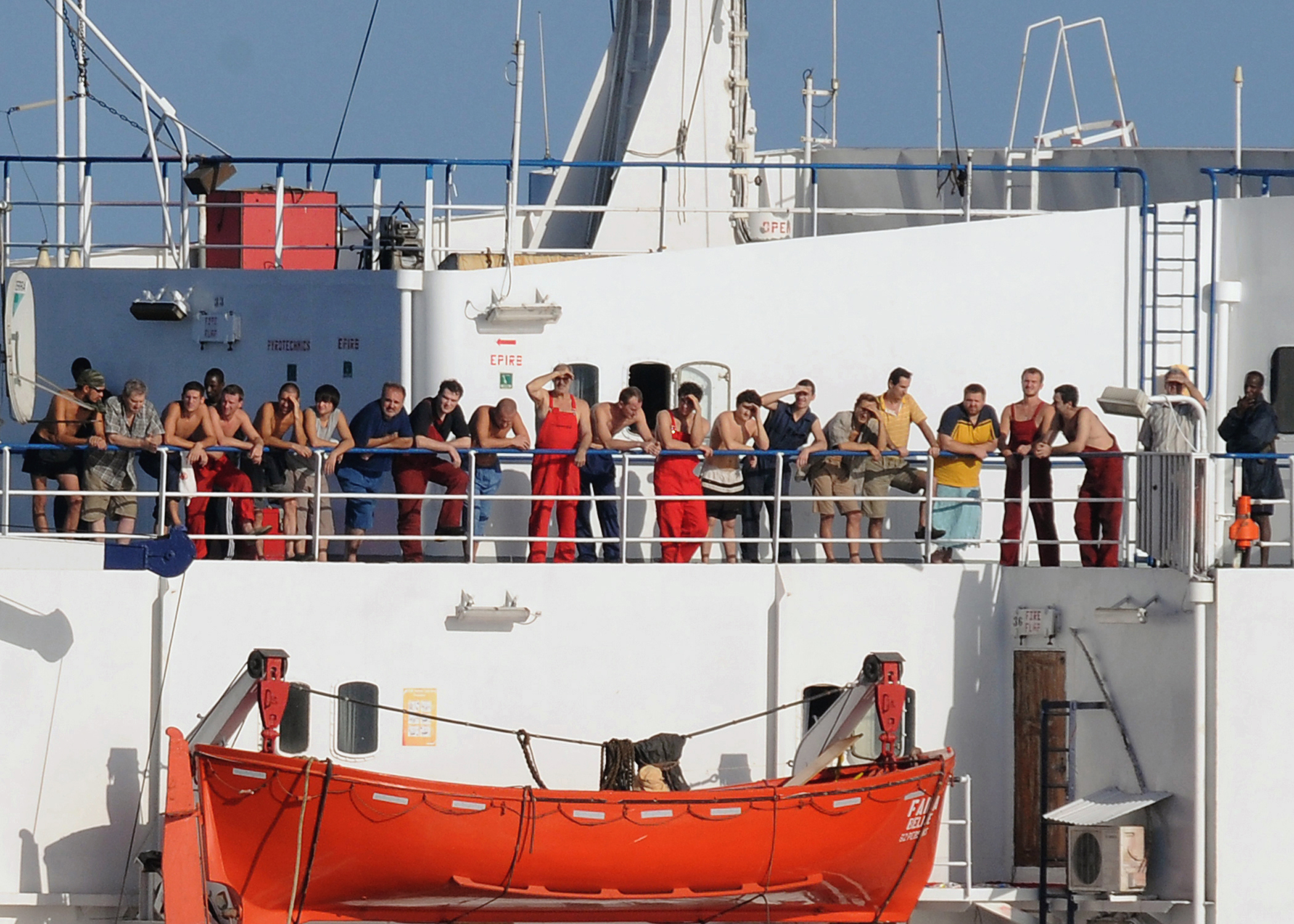 081003-N-1082Z-059 SOMALIA (Oct. 3, 2008) The crew of the merchant vessel MV Faina stands on the deck after a U.S. Navy request to check on their health and welfare. The Belize-flagged cargo ship, owned and operated by Kaalybe Shipping, Ukraine, was seized by pirates Sept. 25 and forced to proceed to anchorage off the Somali Coast. The ship is carrying a cargo of Ukrainian T-72 tanks and related military equipment. U.S. Navy photo by Mass Communication Specialist 2nd Class Jason R. Zalasky (Released)